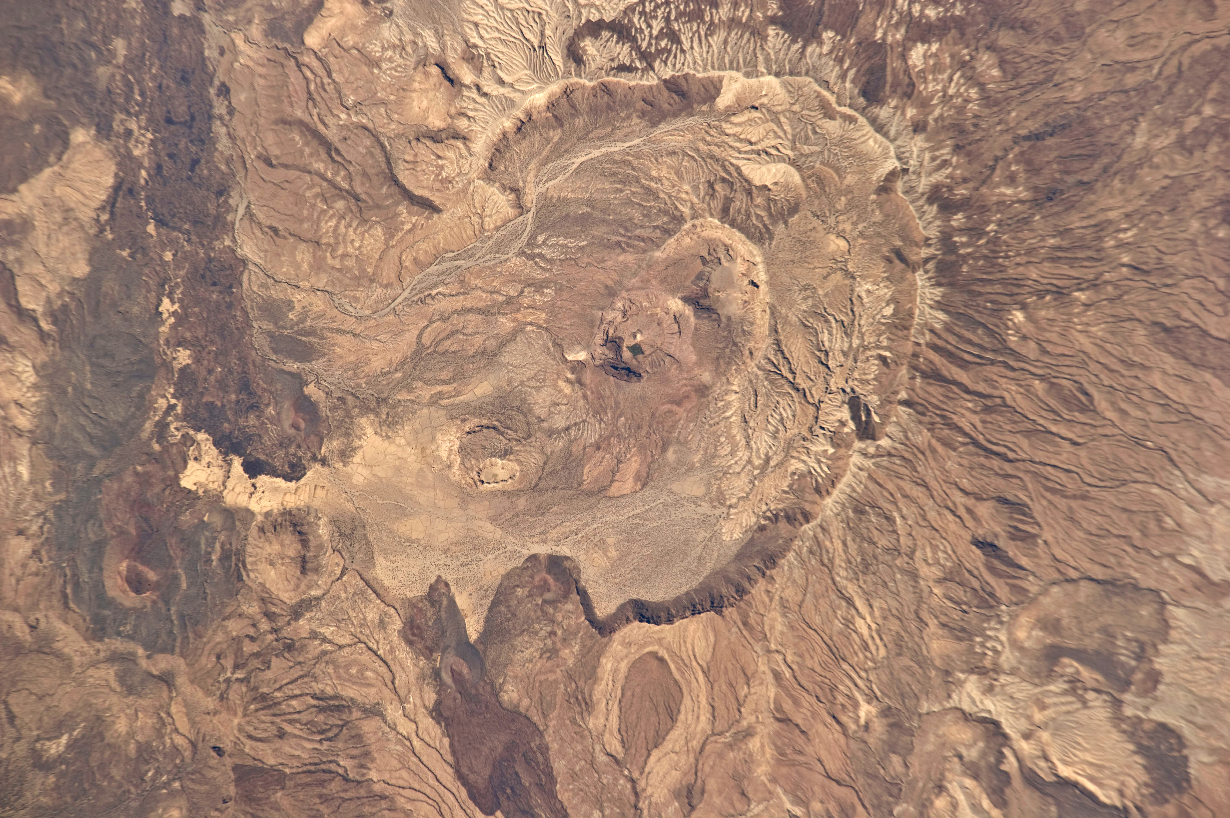 Astronauts on the International Space Station snapped this digital photograph of Nabro in January 2011, when all was still quiet. The horseshoe-shaped caldera stretches 8 kilometres in diameter and opens to the south-west. Two smaller calderas lie within the larger one. Gullies and channels scar the outer flanks, signs of many years of run-off. The inner edge of the caldera has steep cliffs, some as high as 400 meters.